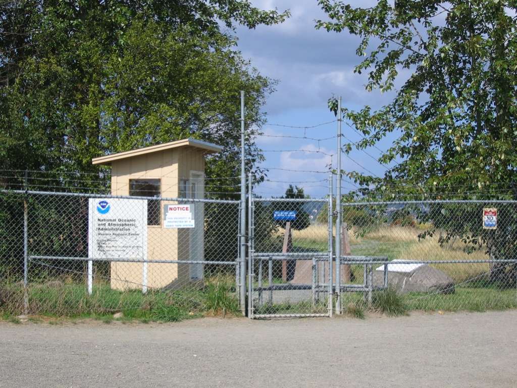 NOAA Entrance: The government has some kind of active facility at the north edge of the park, all fenced off.